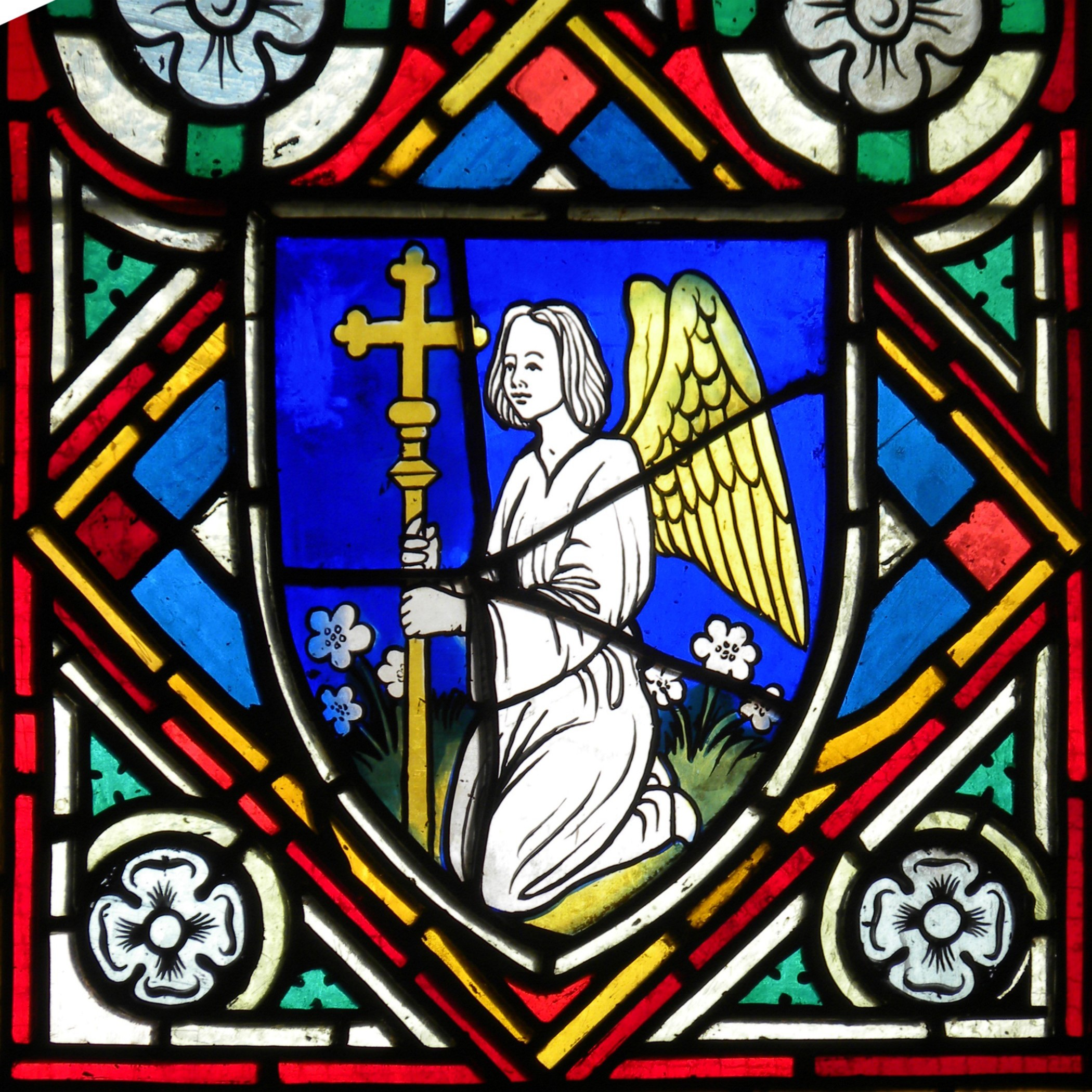 Coat of arms of Prievidza. Parish church in Prievidza, Slovakia. Stained glass window behind the main altar.